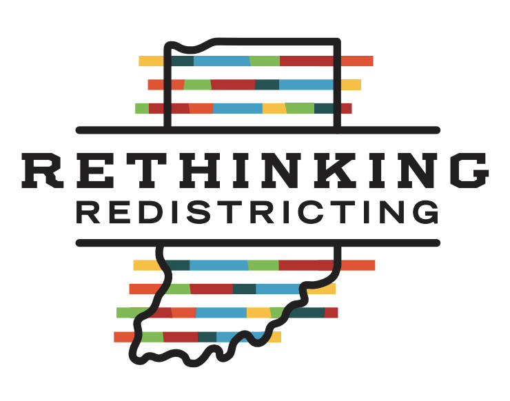 Todd Rokita's Rethinking Redistricting (Logo)